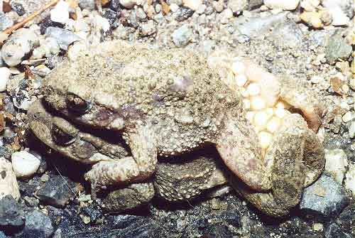 Alytes obstetricans